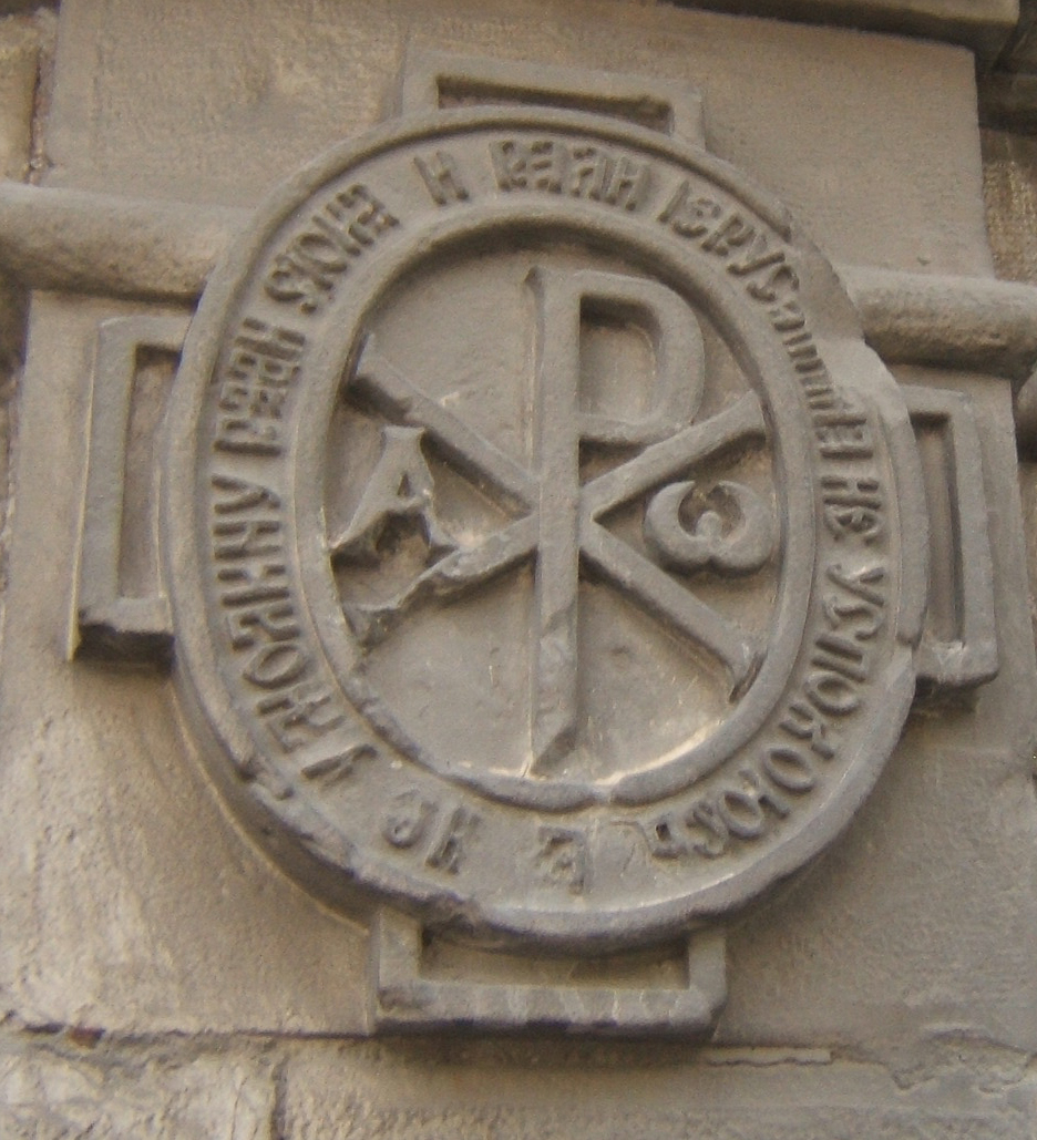 43 Street of Prophets, Jerusalem